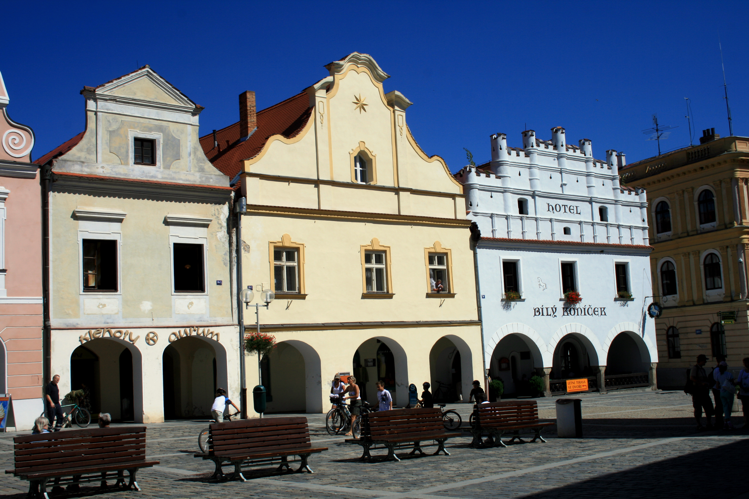 Masaryk Square in Třeboň, South Bohemia, Czech Republic